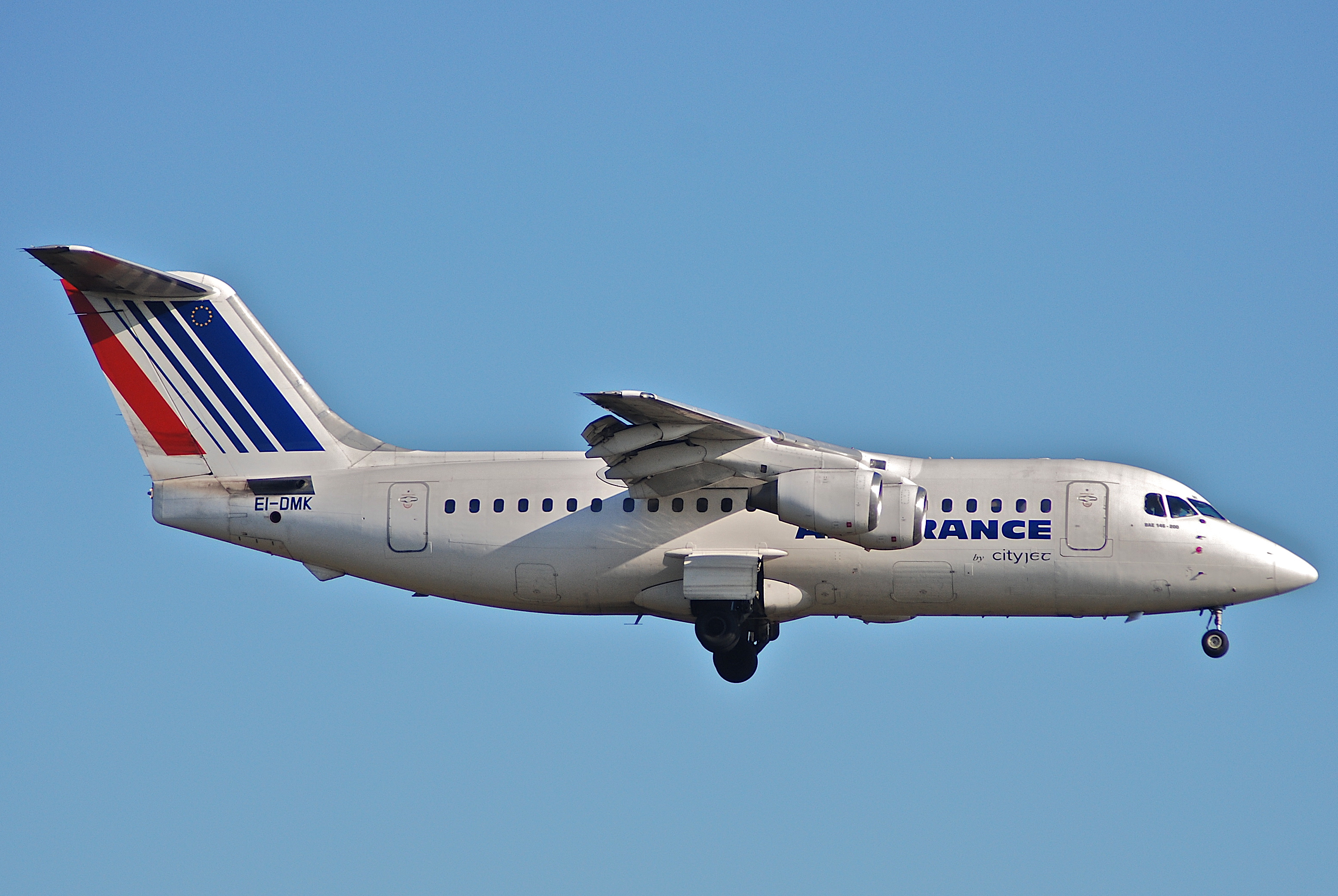 City Jet BAe 146-200; EI-DMK@ZRH;30.01.2007/450ax